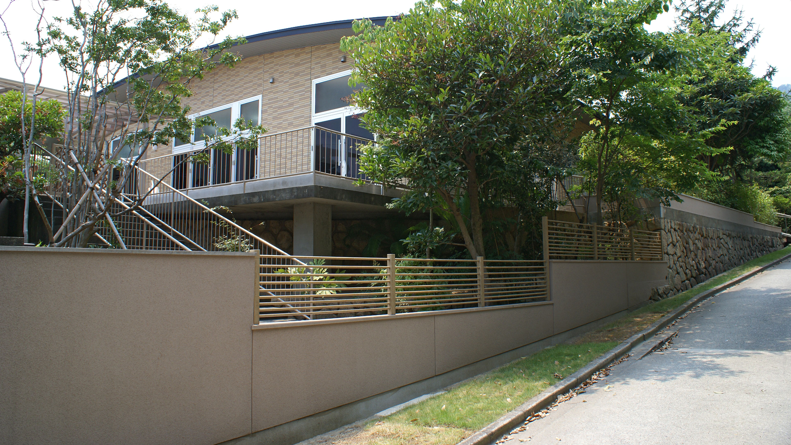 Tekisui Museum of Art in Ashiya, Hyogo, Japan